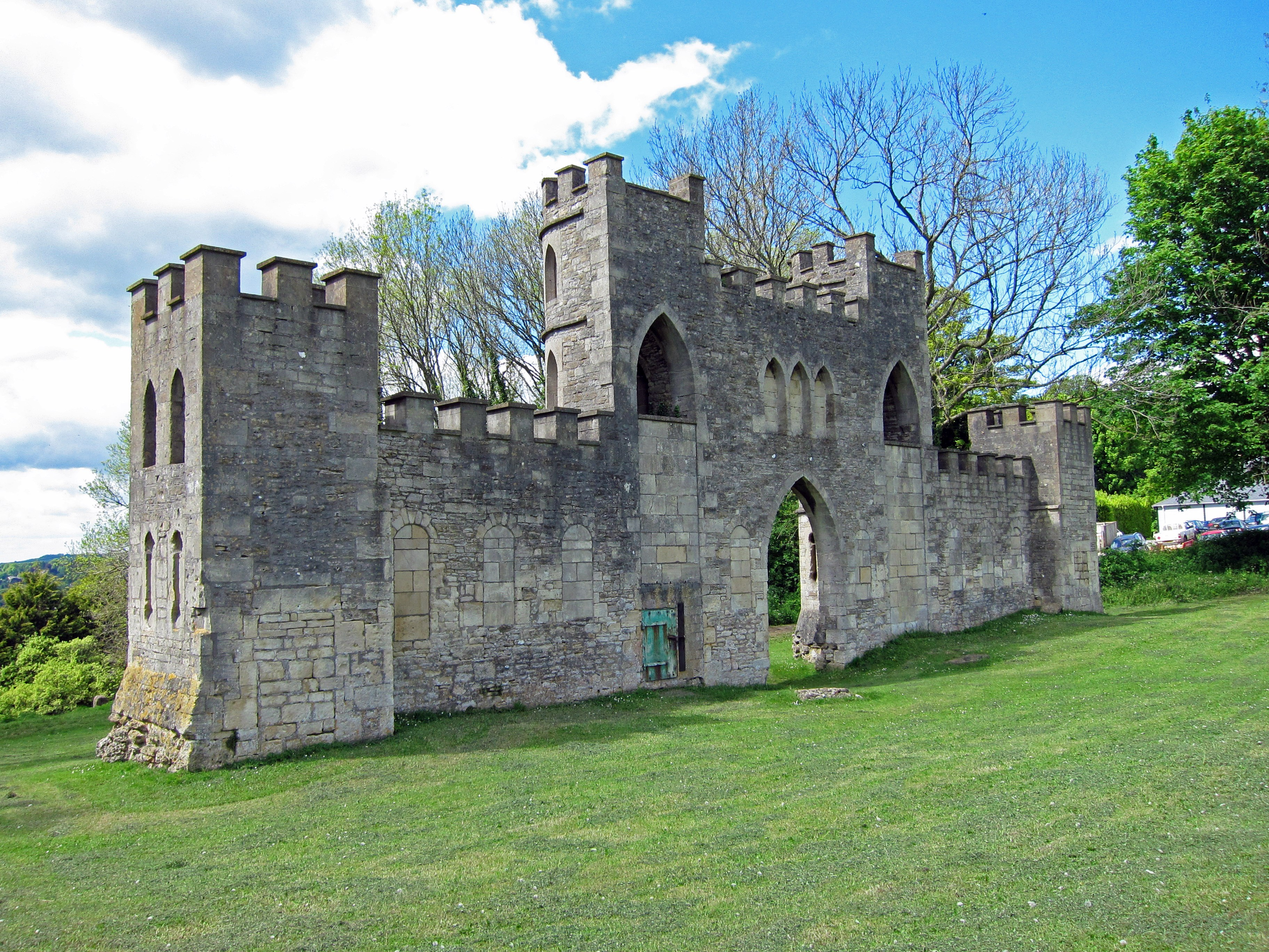 Rear view of Sham Castle, Bath, England, showing it is just a wall with turrets. It is positioned to look impressive from one direction only.